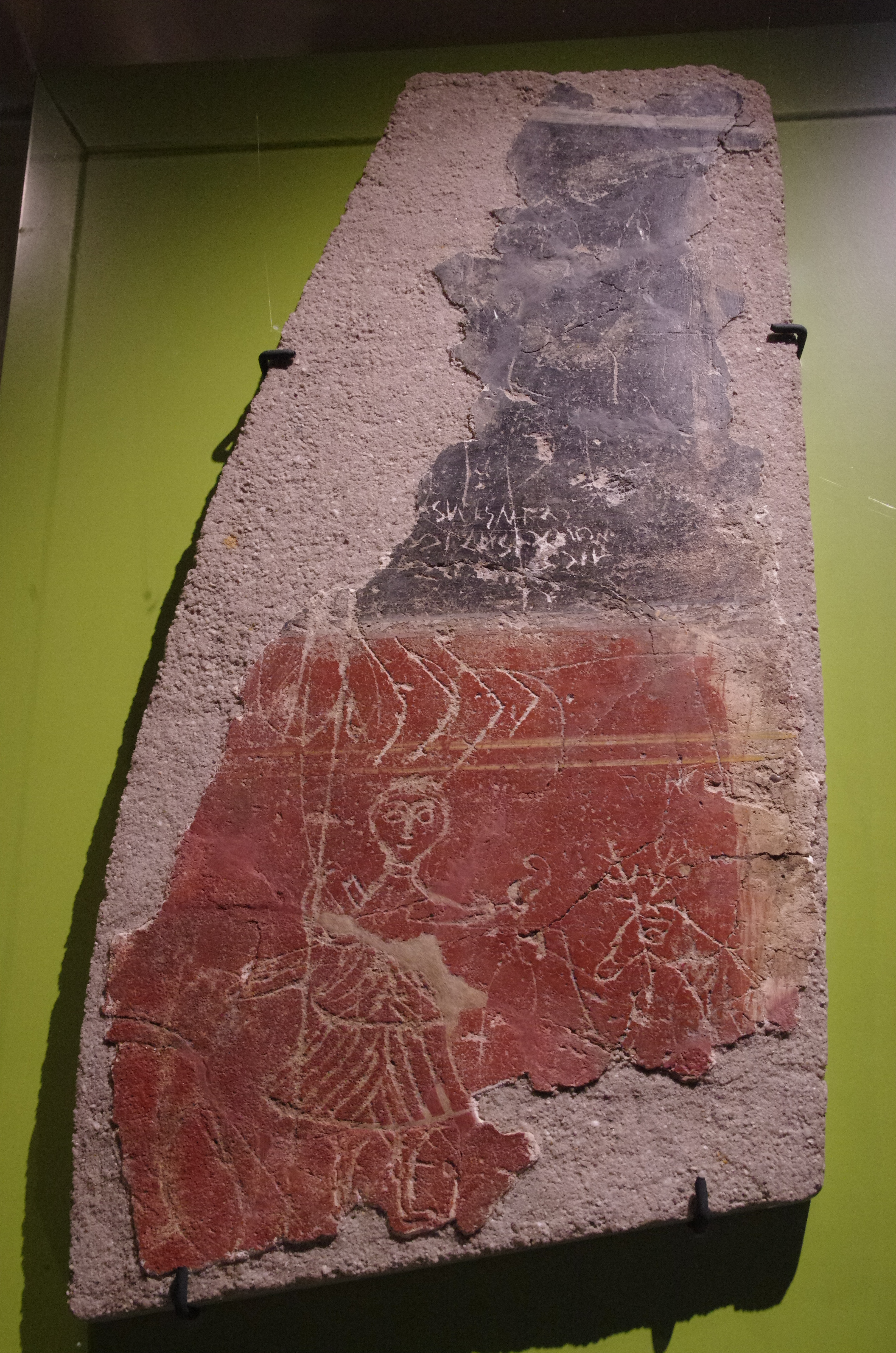 Inscription on Wall Plaster - Roman Museum - Augusta Raurica - August 2013